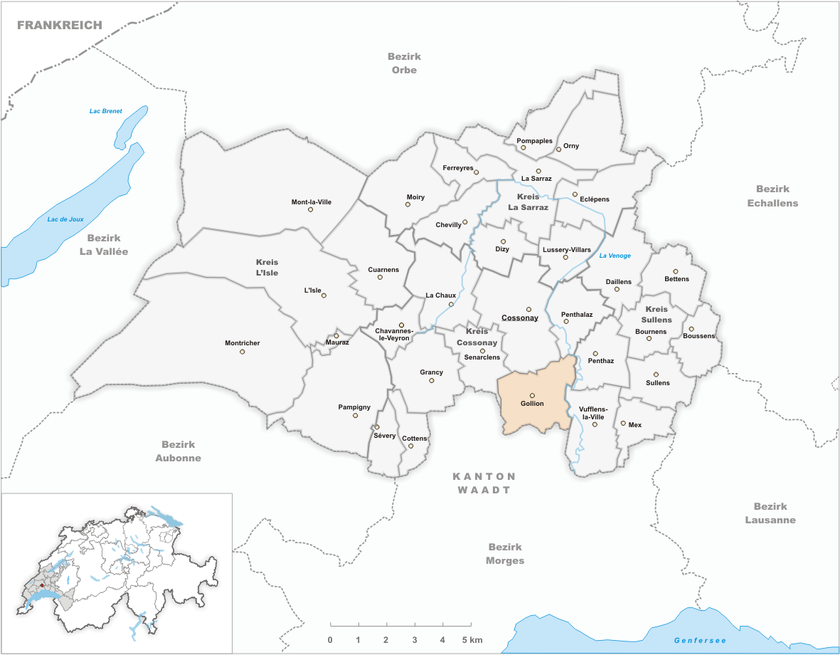 Municipality Gollion